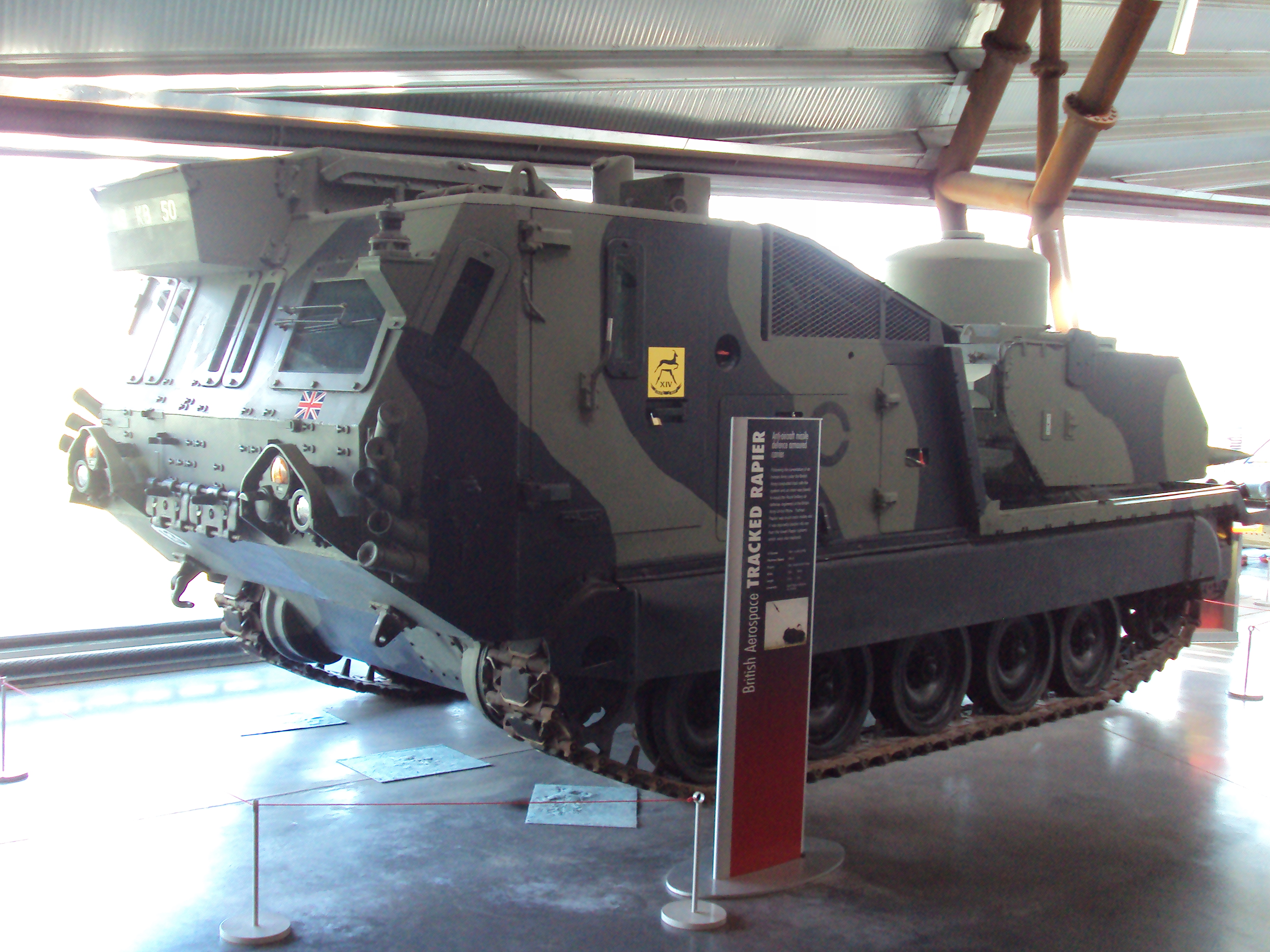 BAE Tracked Rapier armoured vehicle. Photo taken at the RAF Museum Cosford, Shropshire, England.